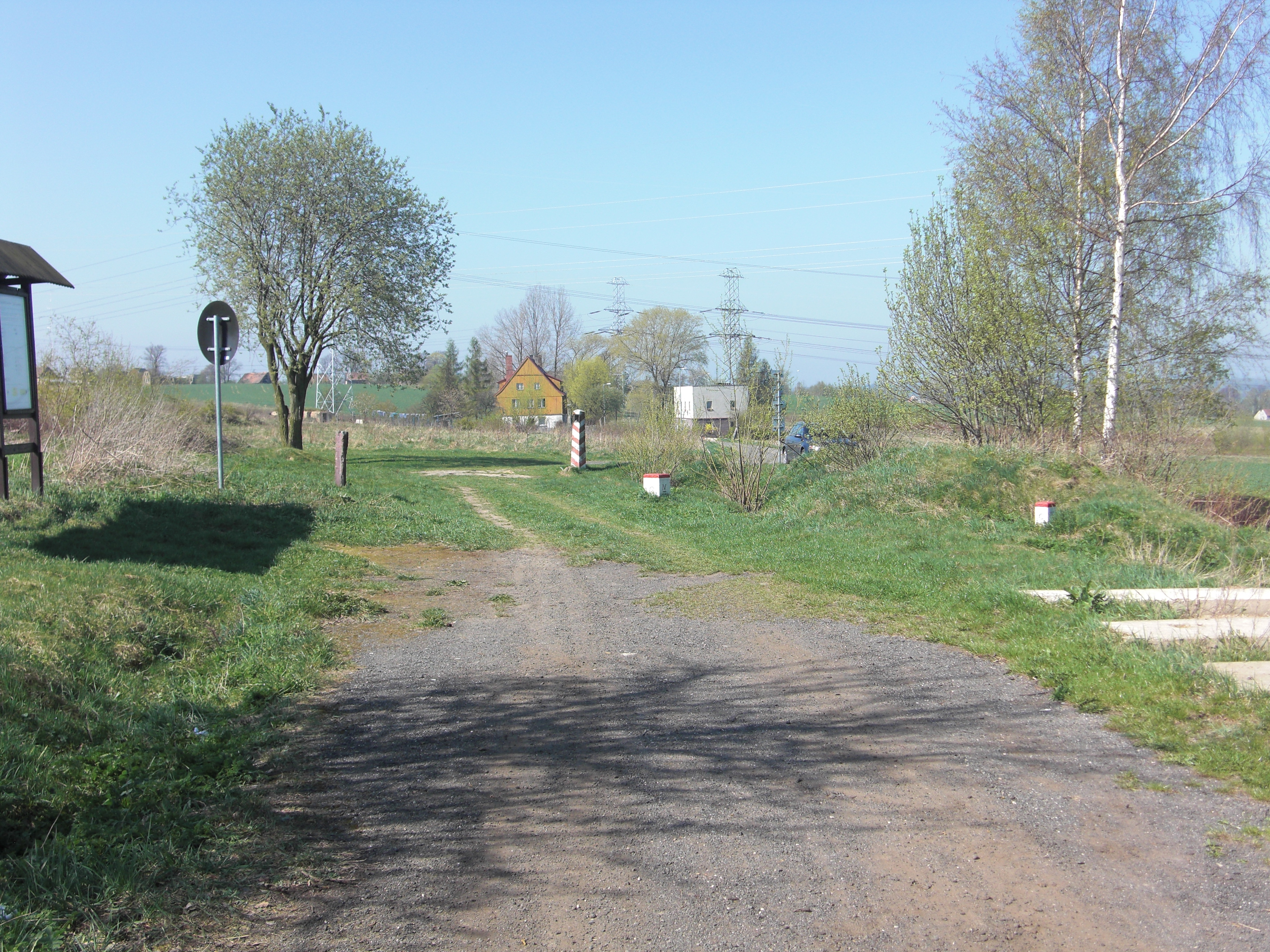 Border